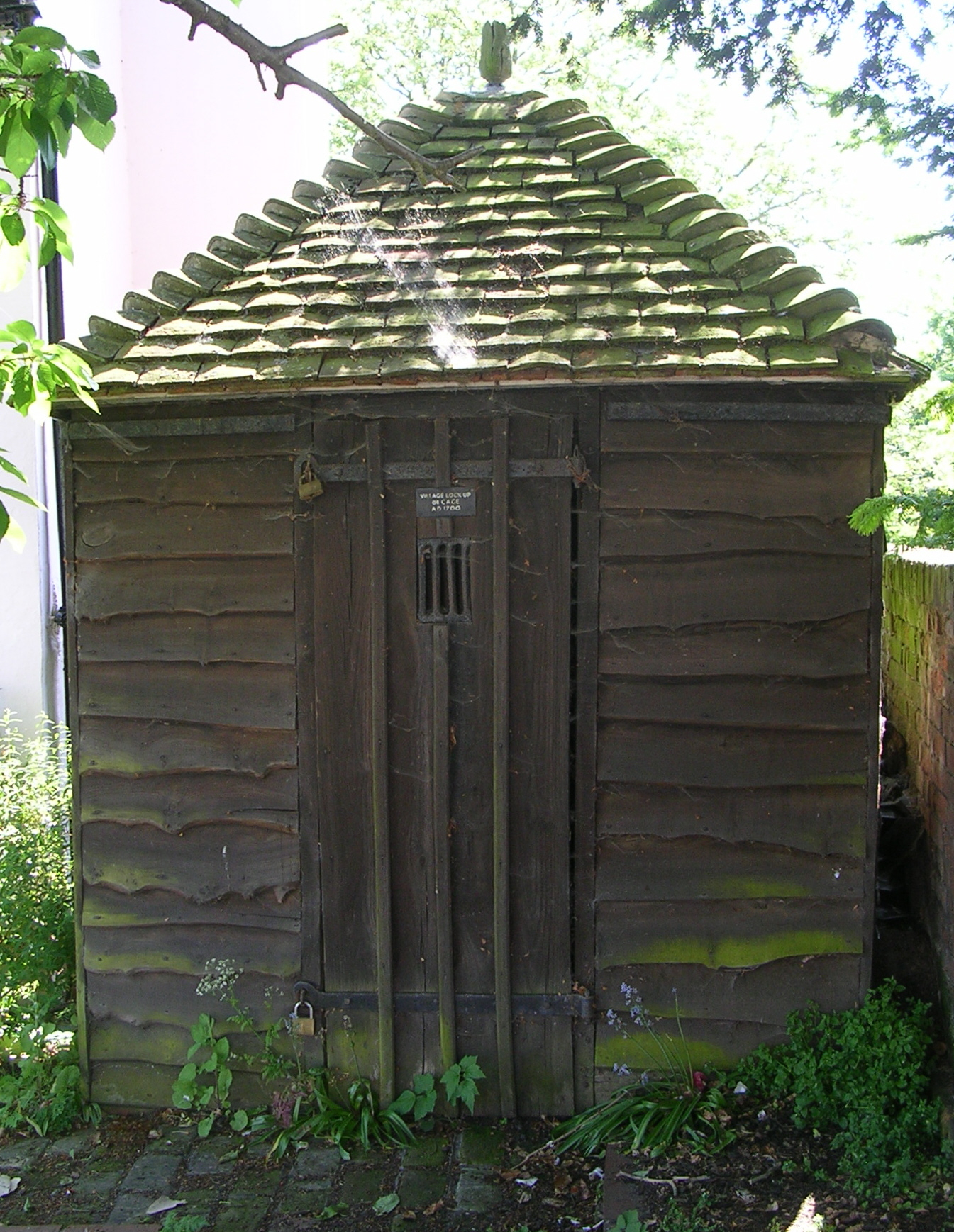 Village "Lock-up", Tollesbury, Essex, England